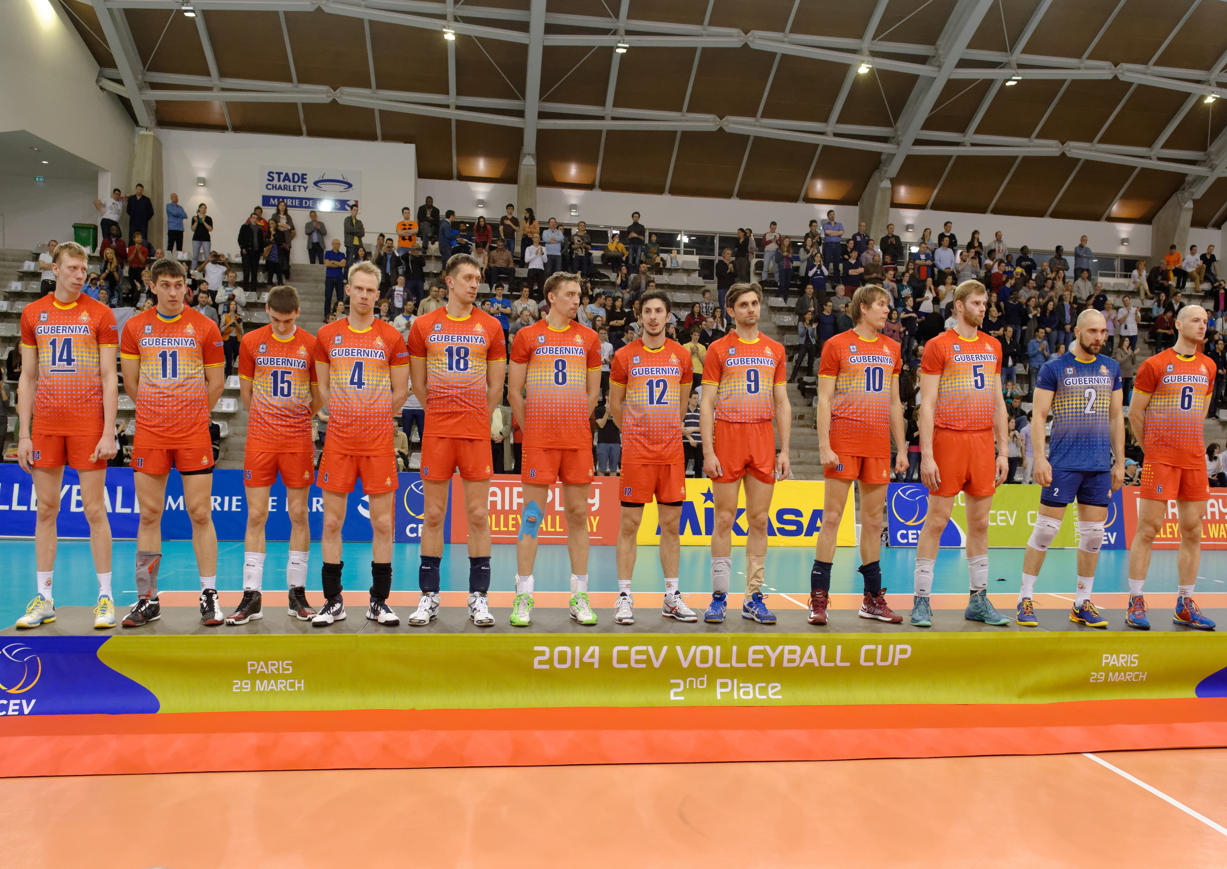 Guberniya Nizhny Novgorod at the award ceremony of the 2014 CEV Cup in Paris on 29 March 2014.